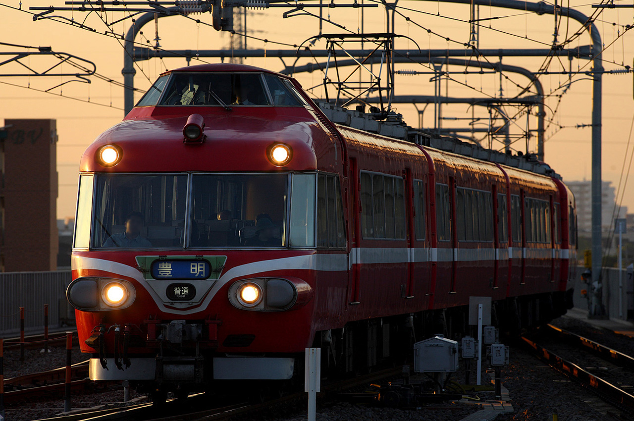 Meitetsu Panorama Car 7000 series EMU ( 7011F ) at Narumi Sta.